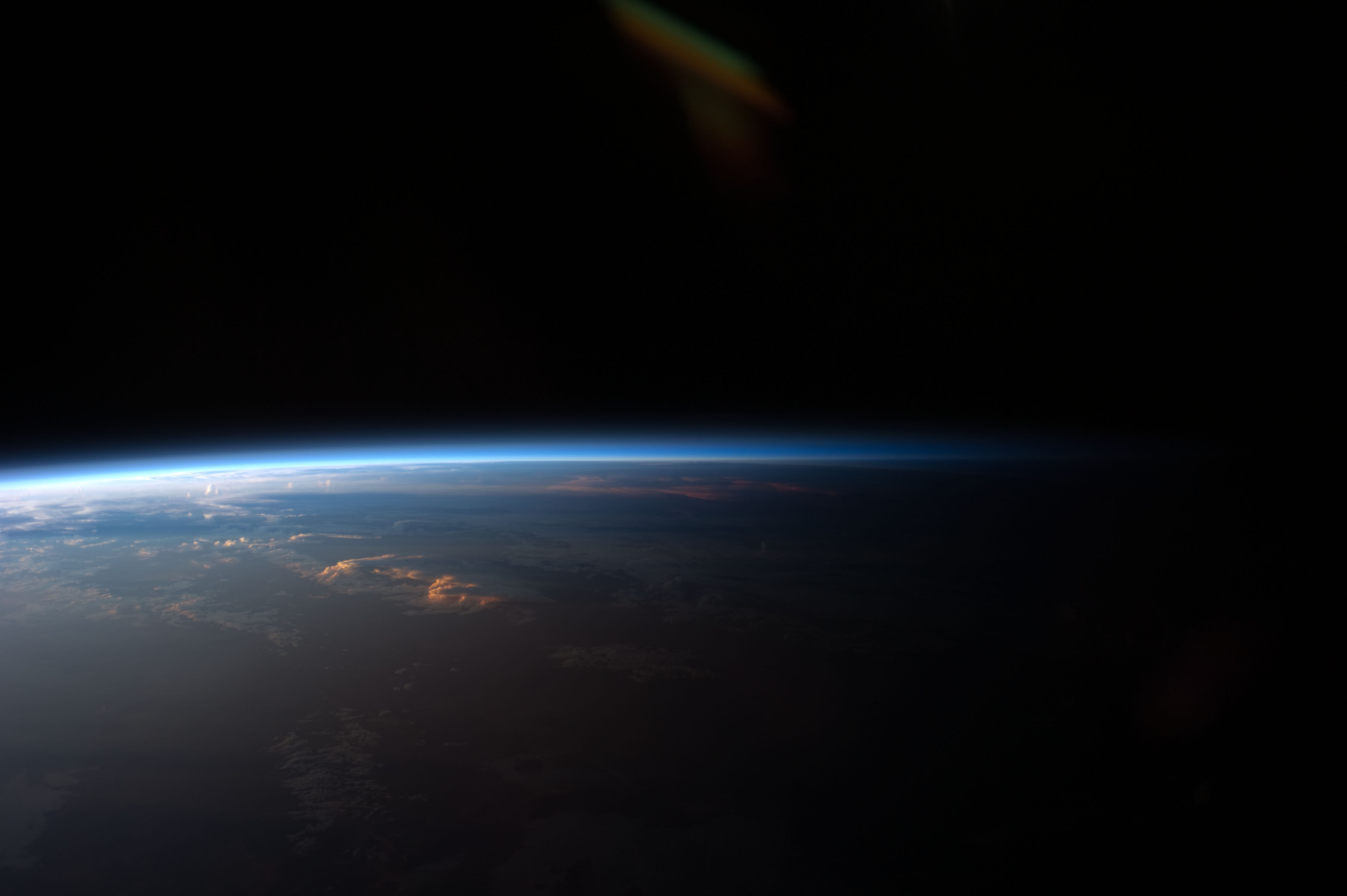 The terminator is visible in this panoramic view across central South America, looking towards the north-east. An astronaut shot the photo at approximately 7:37 p.m. local time. Layers of the Earth’s atmosphere, coloured bright white to deep blue, are visible on the horizon (or limb). The highest cloud tops have a reddish glow due to direct light from the setting Sun, while lower clouds are in twilight. The Salar de Coipasa, a large salt lake in Bolivia, is dimly visible on the night side of the terminator. The salar provides a geographic reference point for determining the location and viewing orientation of the image.